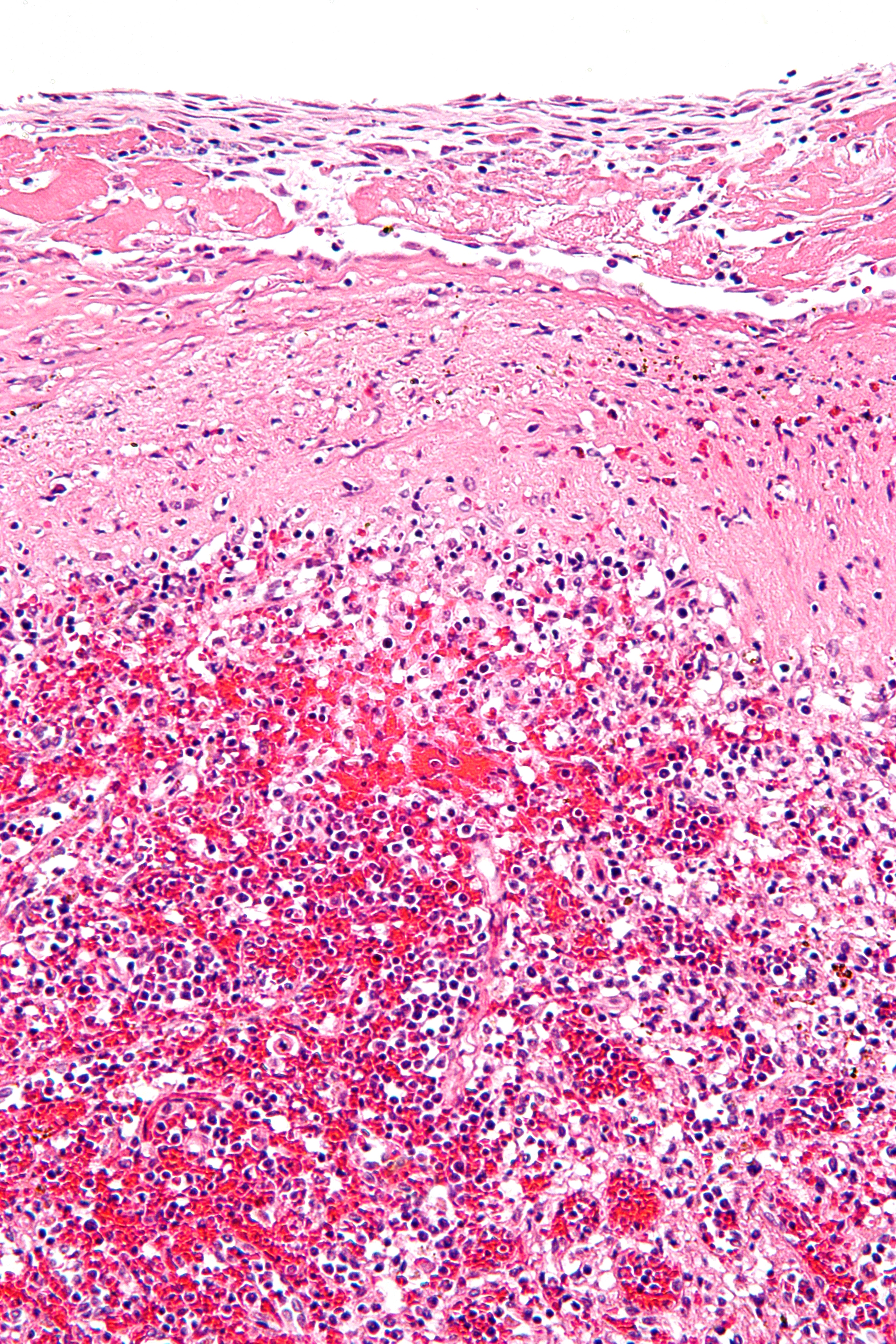 High magnification micrograph of hyaloserositis of the spleen, also known as sugar-coated spleen. H&E stain. The gross appearance is white; thus, it has the name the sugar-coated spleen. Microscopic features: Serosal inflammation (lymphocytes). Subserosal hyaline material. Related images Low mag. Intermed. mag. High mag.